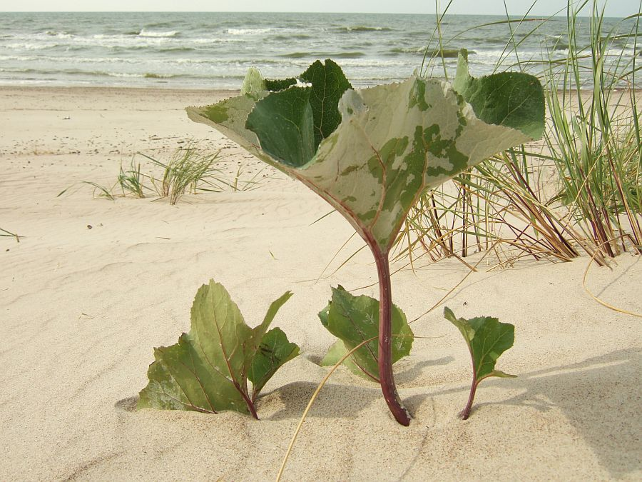 Petasites Spurius at the Baltic Sea